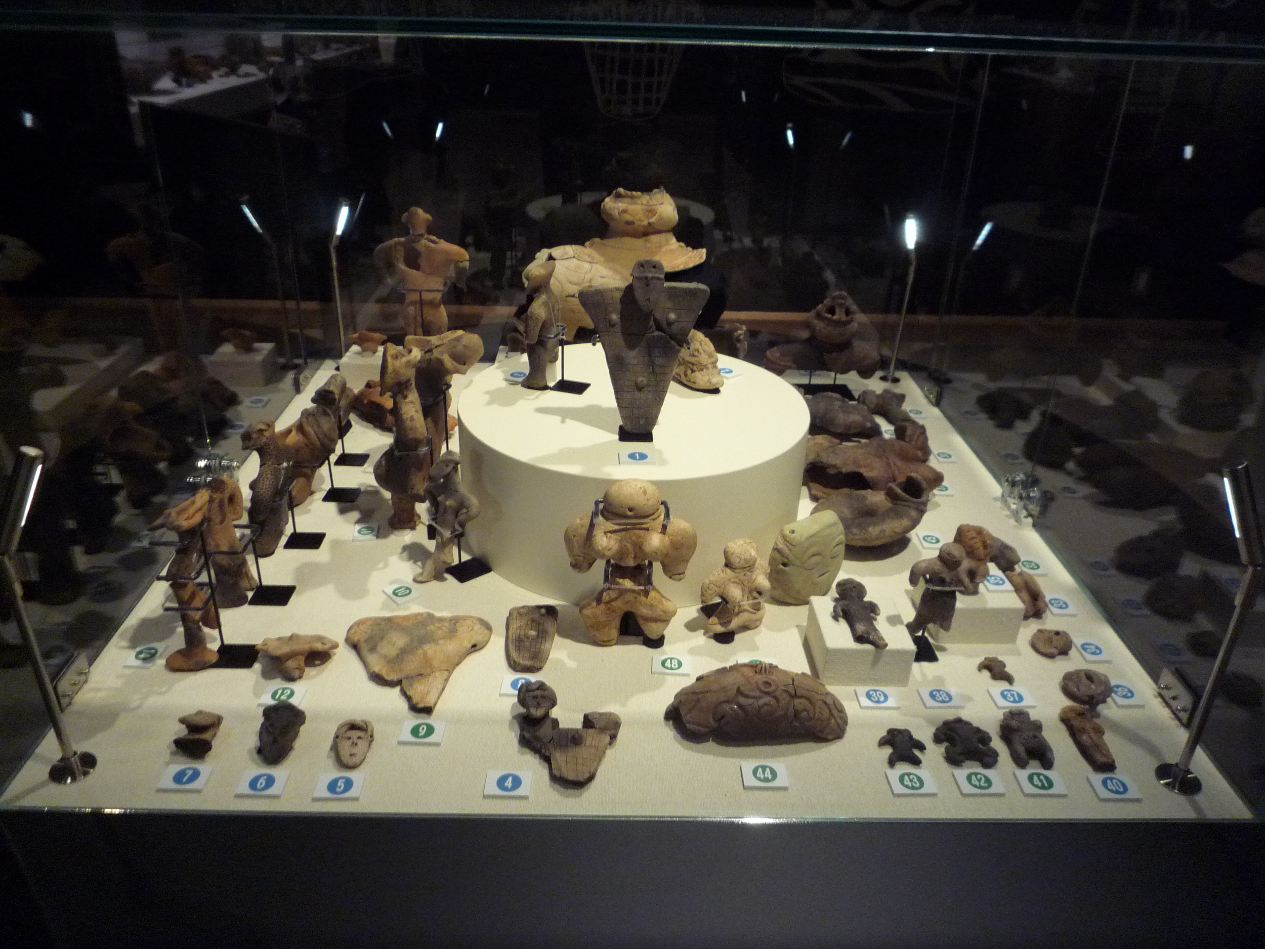 Dogu at the Isedotai Jomonkan museum in Kitaakita City, Akita Prefecture, Japan